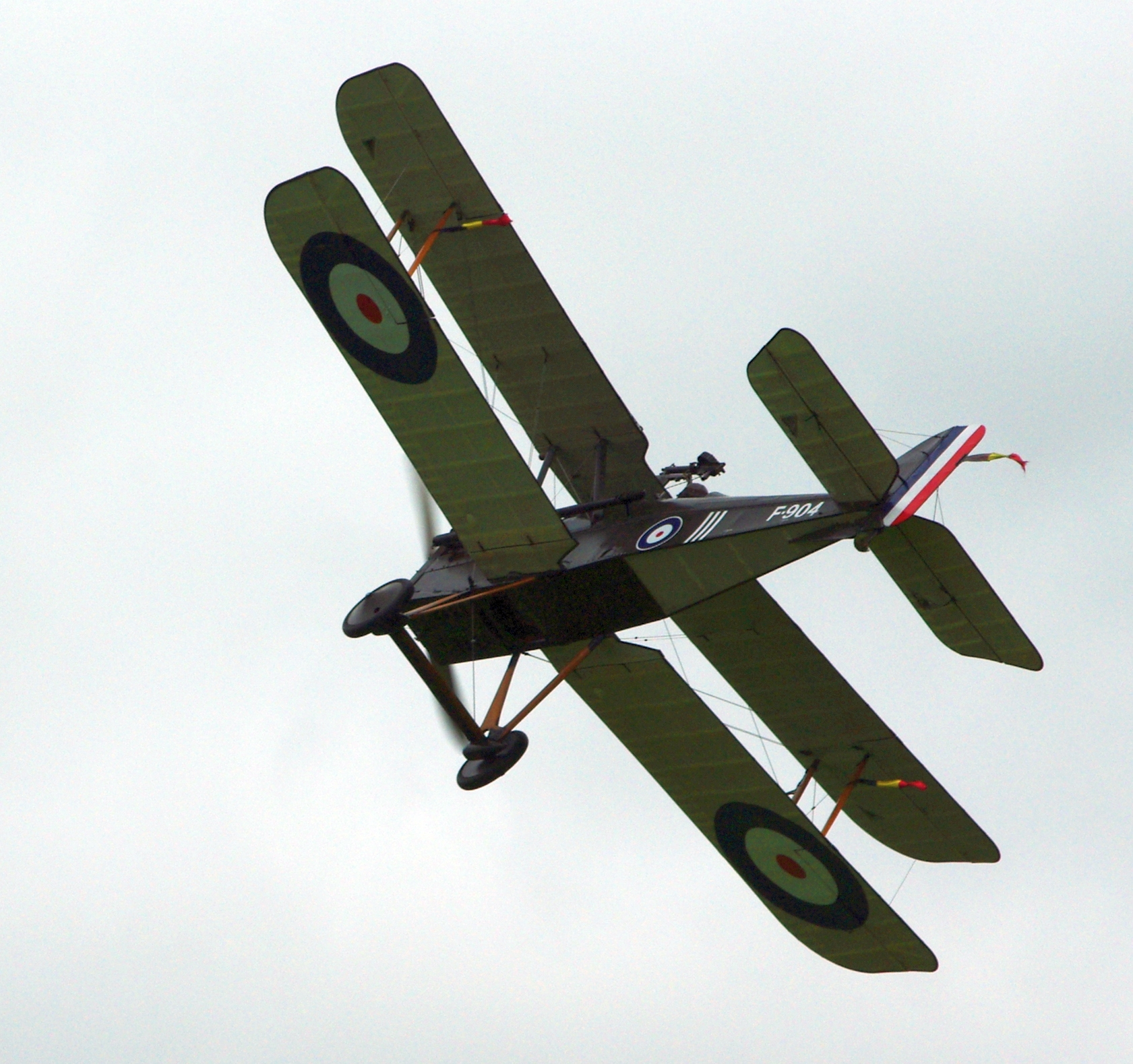 Royal Aiircraft Factory S.E.5A F-904 at Old Warden, June 2014